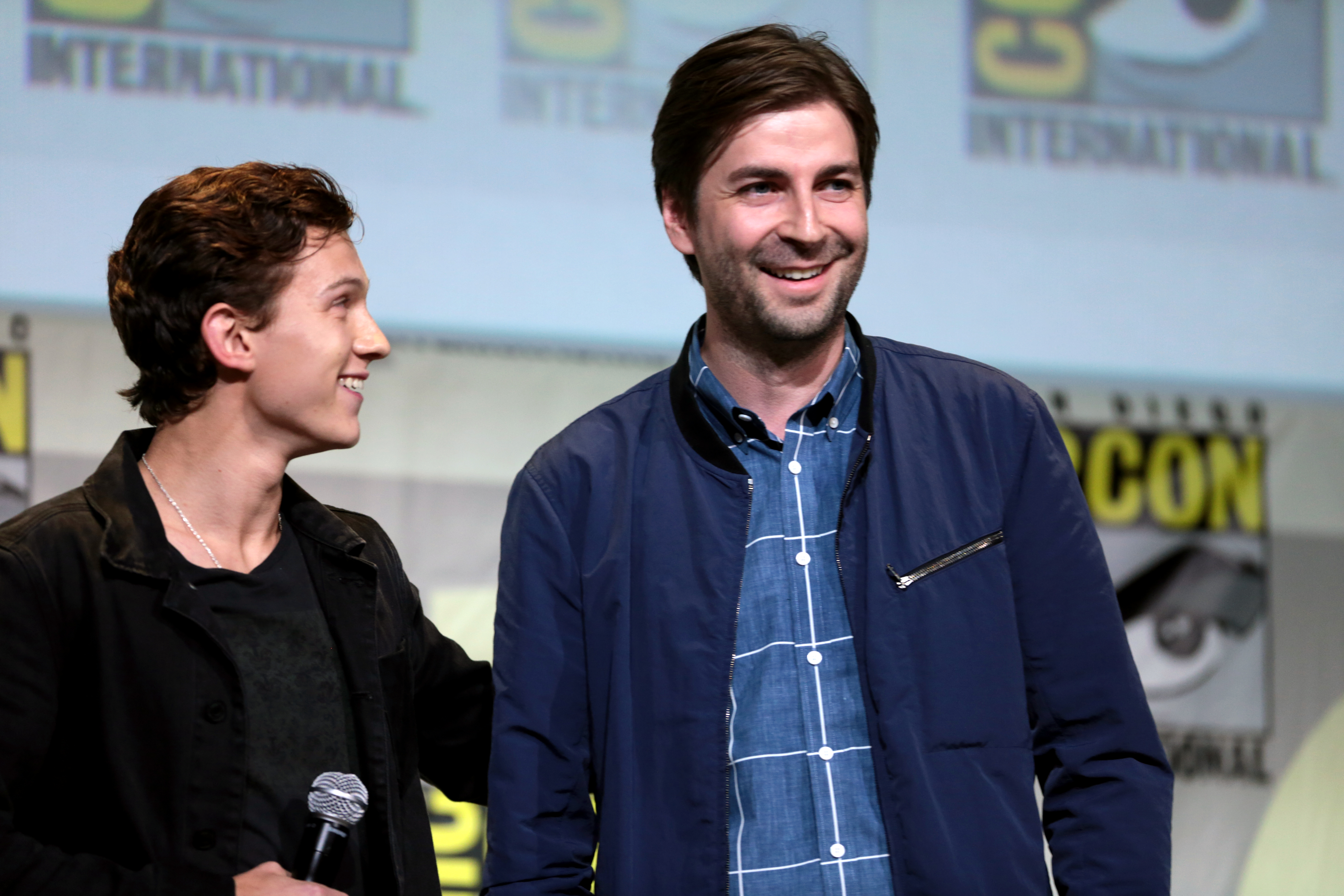 Tom Holland and Jon Watts speaking at the 2016 San Diego Comic Con International, for "Spider-Man: Homecoming", at the San Diego Convention Center in San Diego, California.